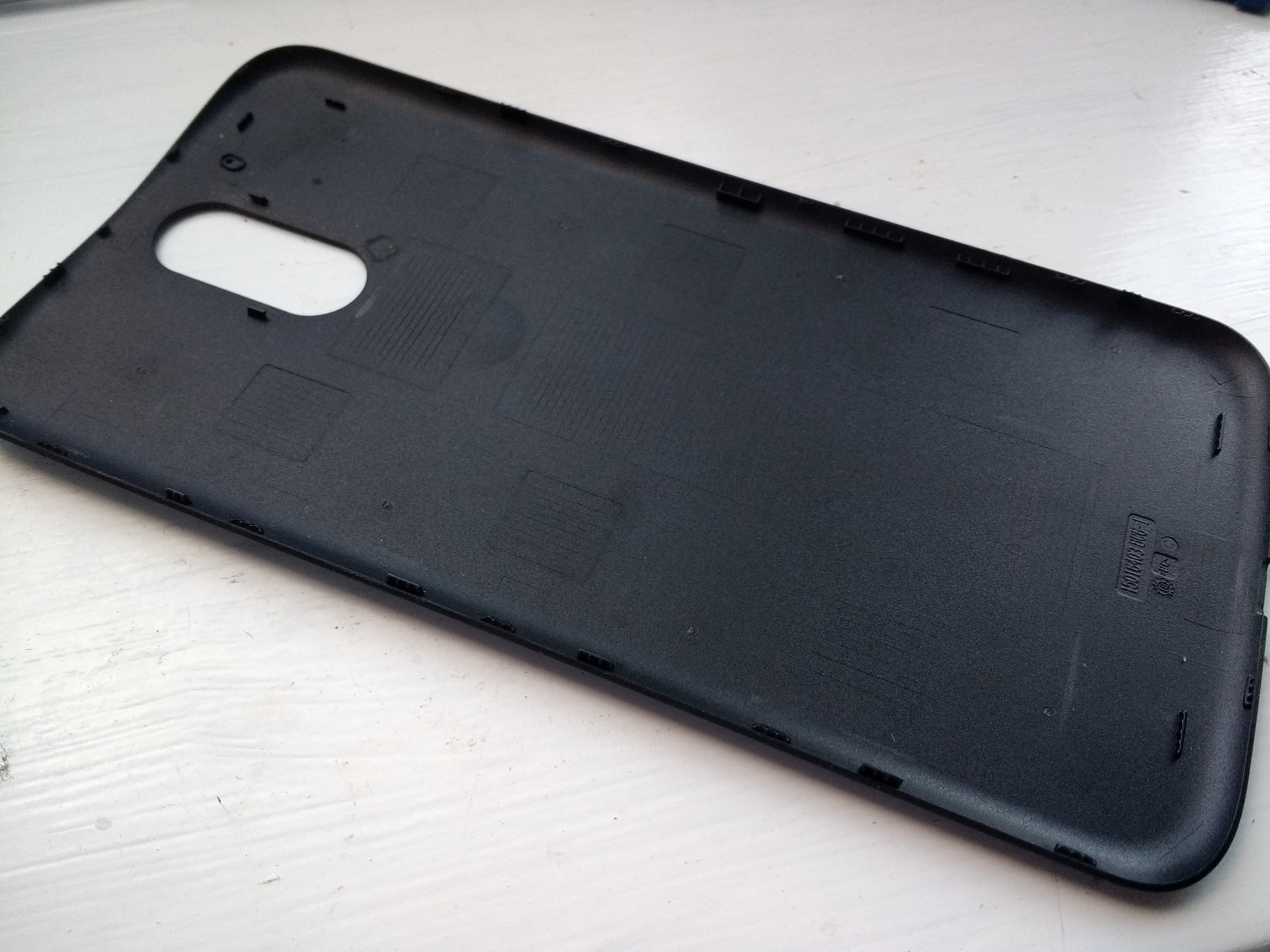 Moto G4 cell phone frame made from PC for the Wikipedia page: Polycarbonate